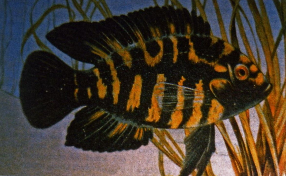 Chanchito (Australoheros facetus)